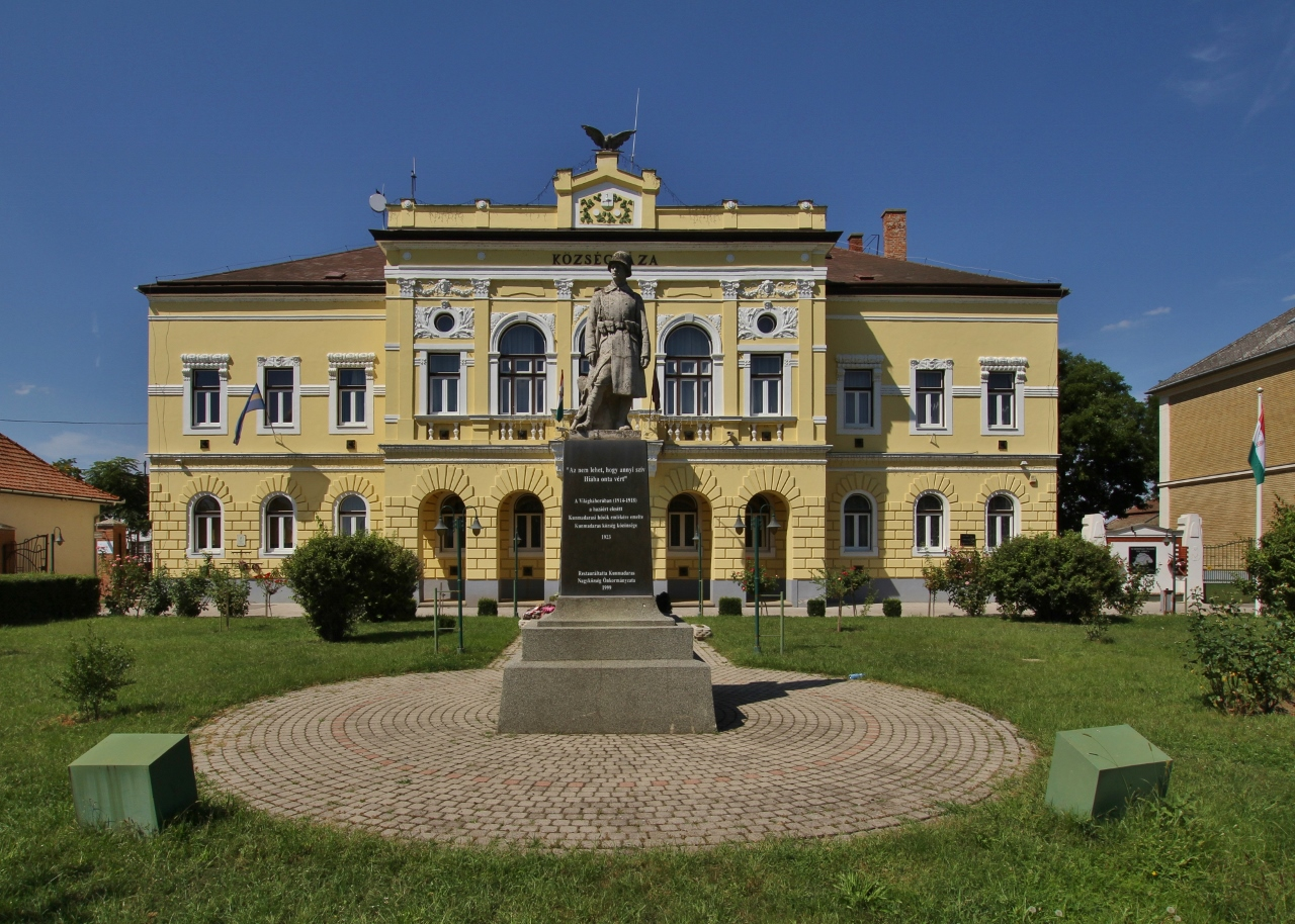 Village hall and First World War monument in Kossuth tér, Kunmadaras, Hungary, seen from south-southeast